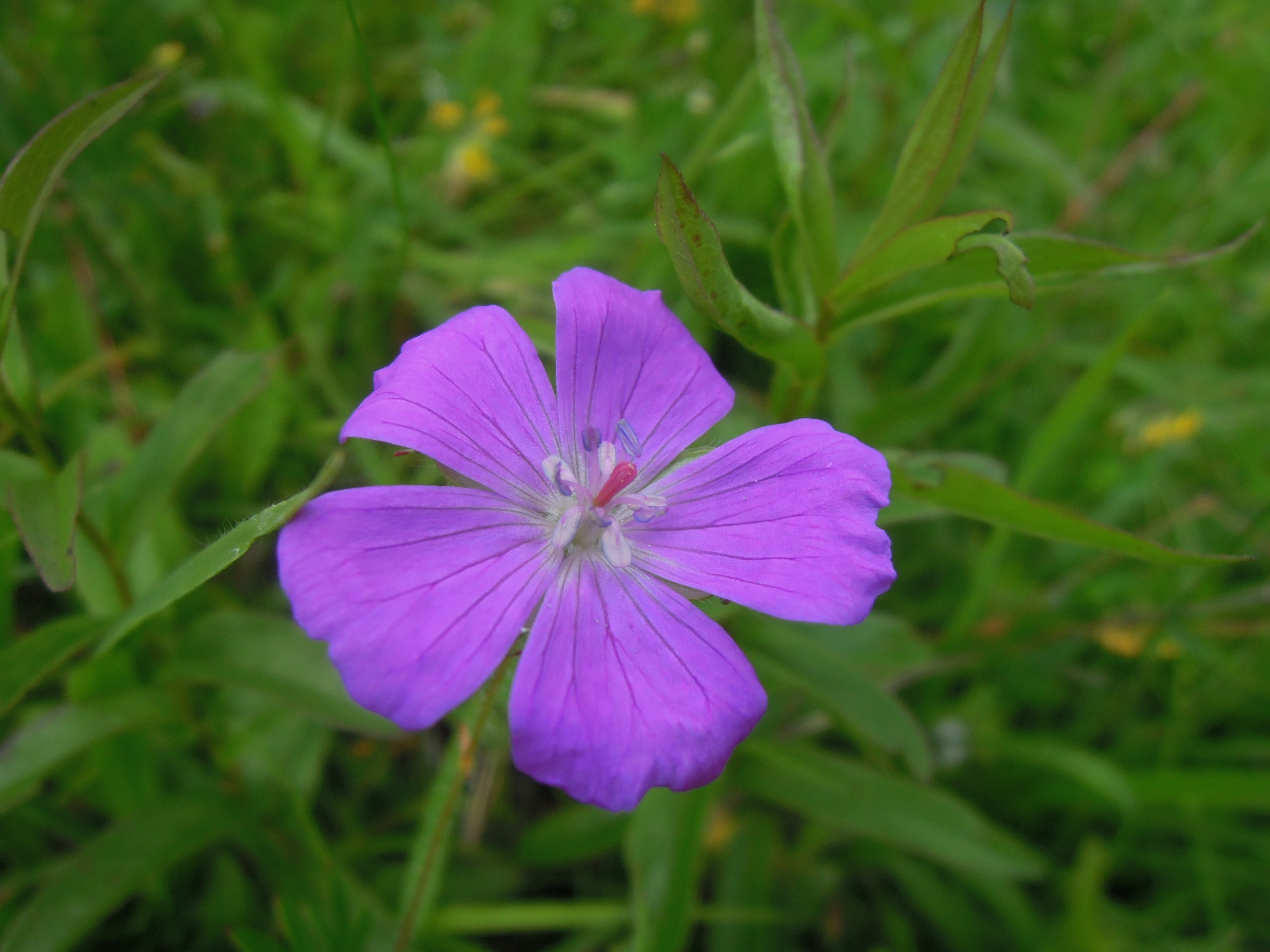 Geranium sanguineum at nature reserve Dobšena in Valašské Klobouky, Zlín District, Zlín Region, Czech Republic